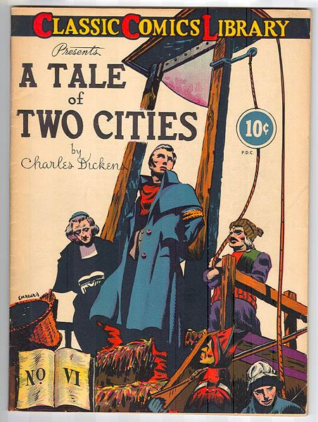 Cover scan of a Classics Comics book